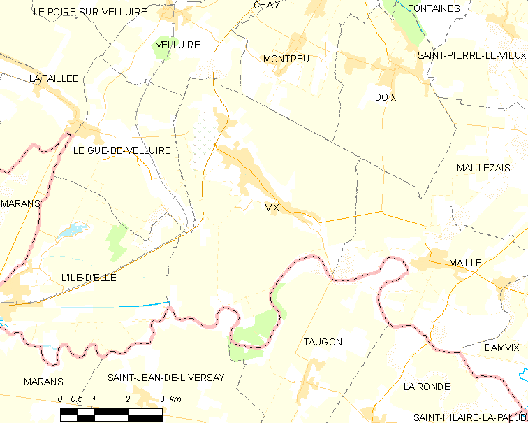 Map of French municipality Vix